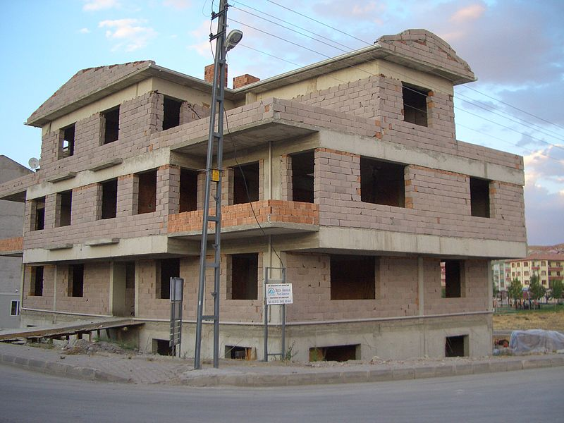 House construction. Etimesgut, Ankara, Turkey.